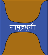 SVG version of Image:Strait.png